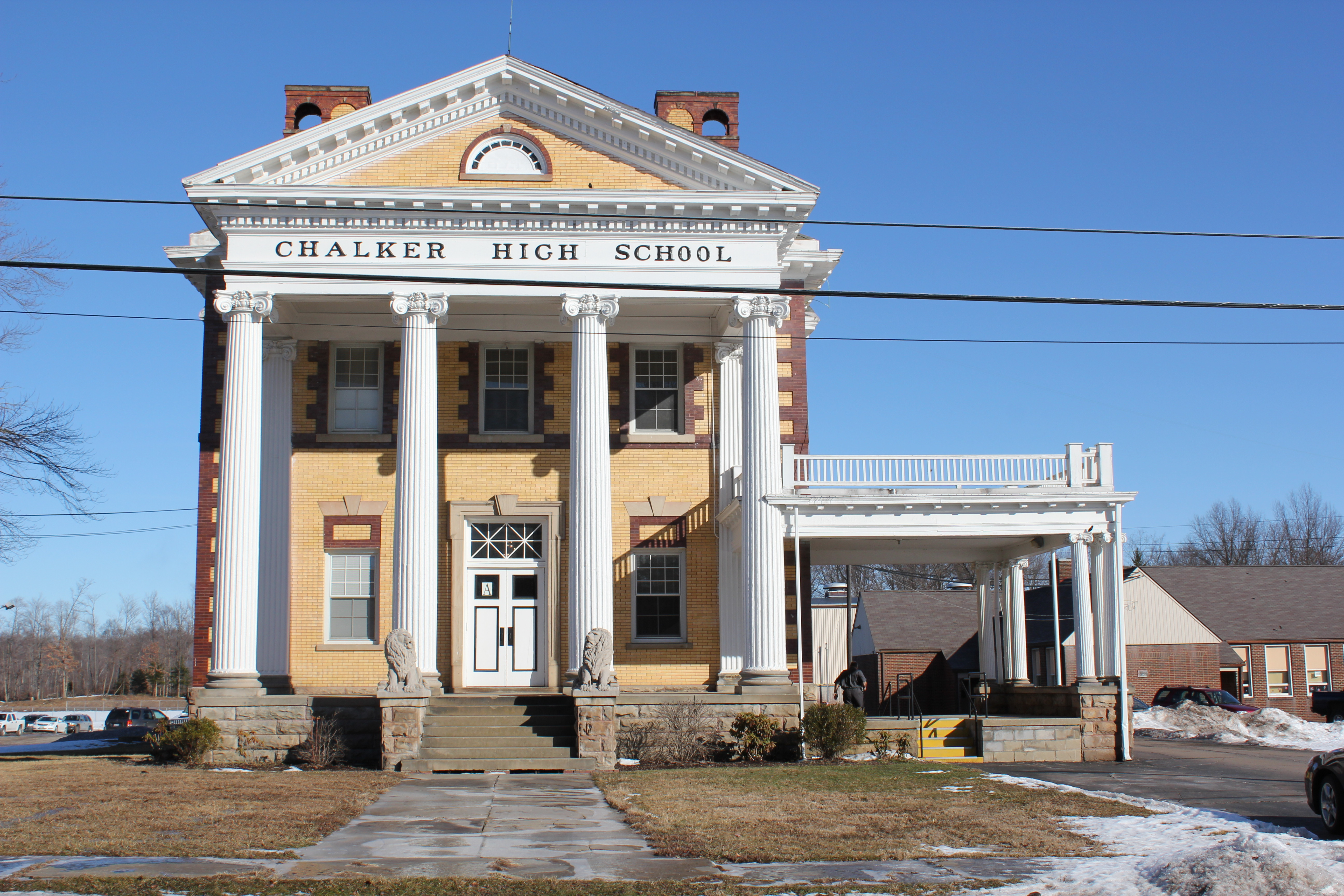 Southington Township School, 4432 State Route 305 Southington Township